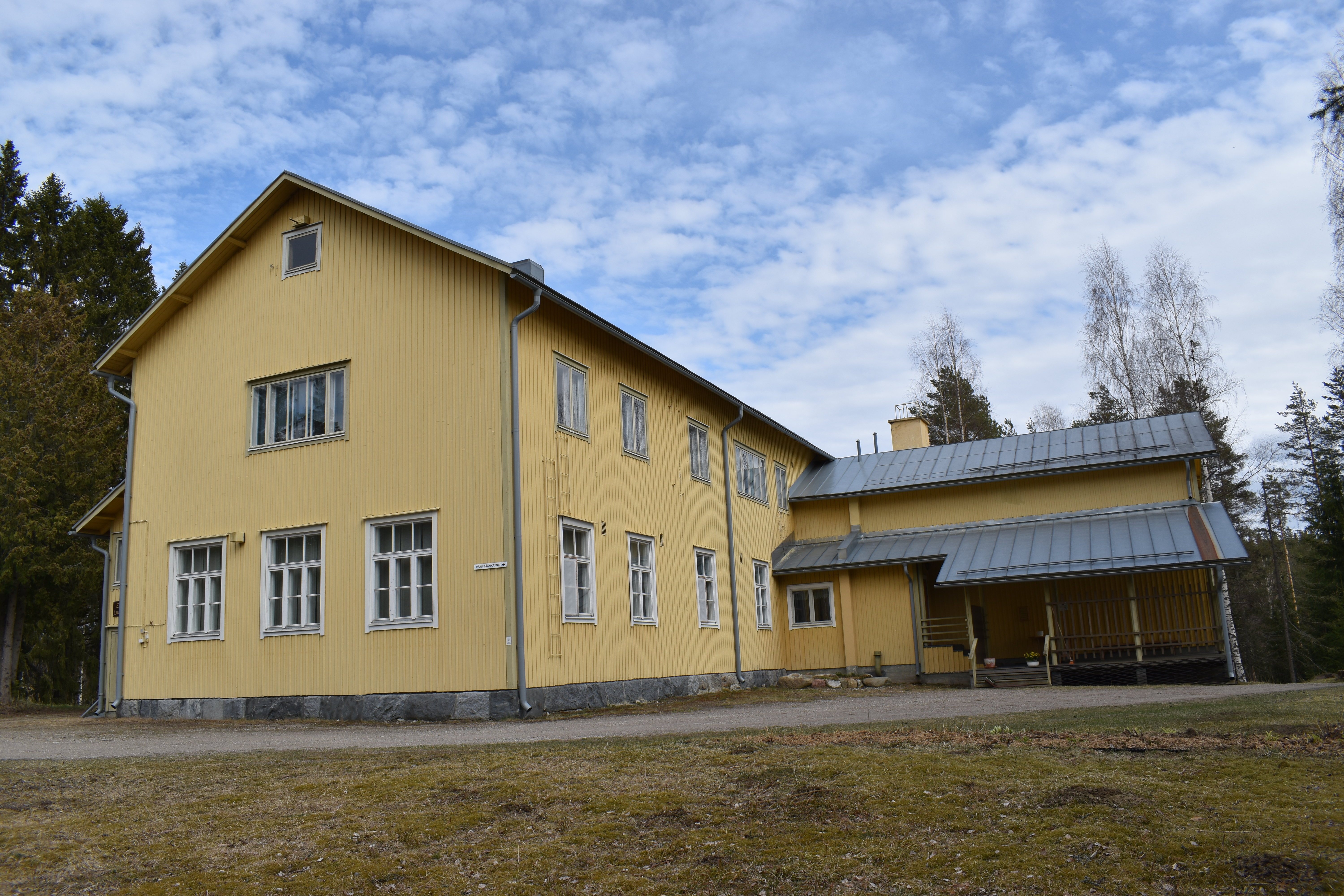 Evangelical Lutheran monastic community in Enonkoski, former school of Ihamaniemi.